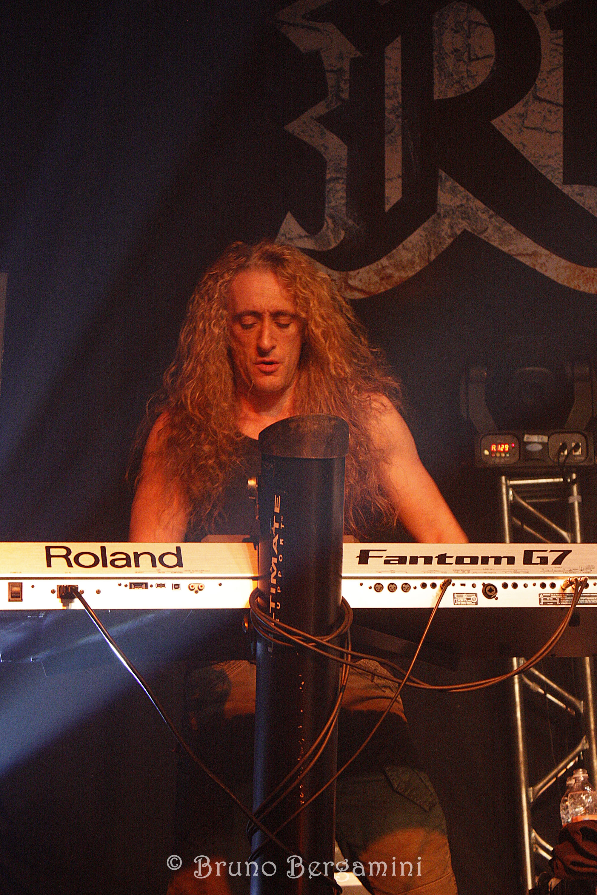 Alex Staropoli of the band Rhapsody